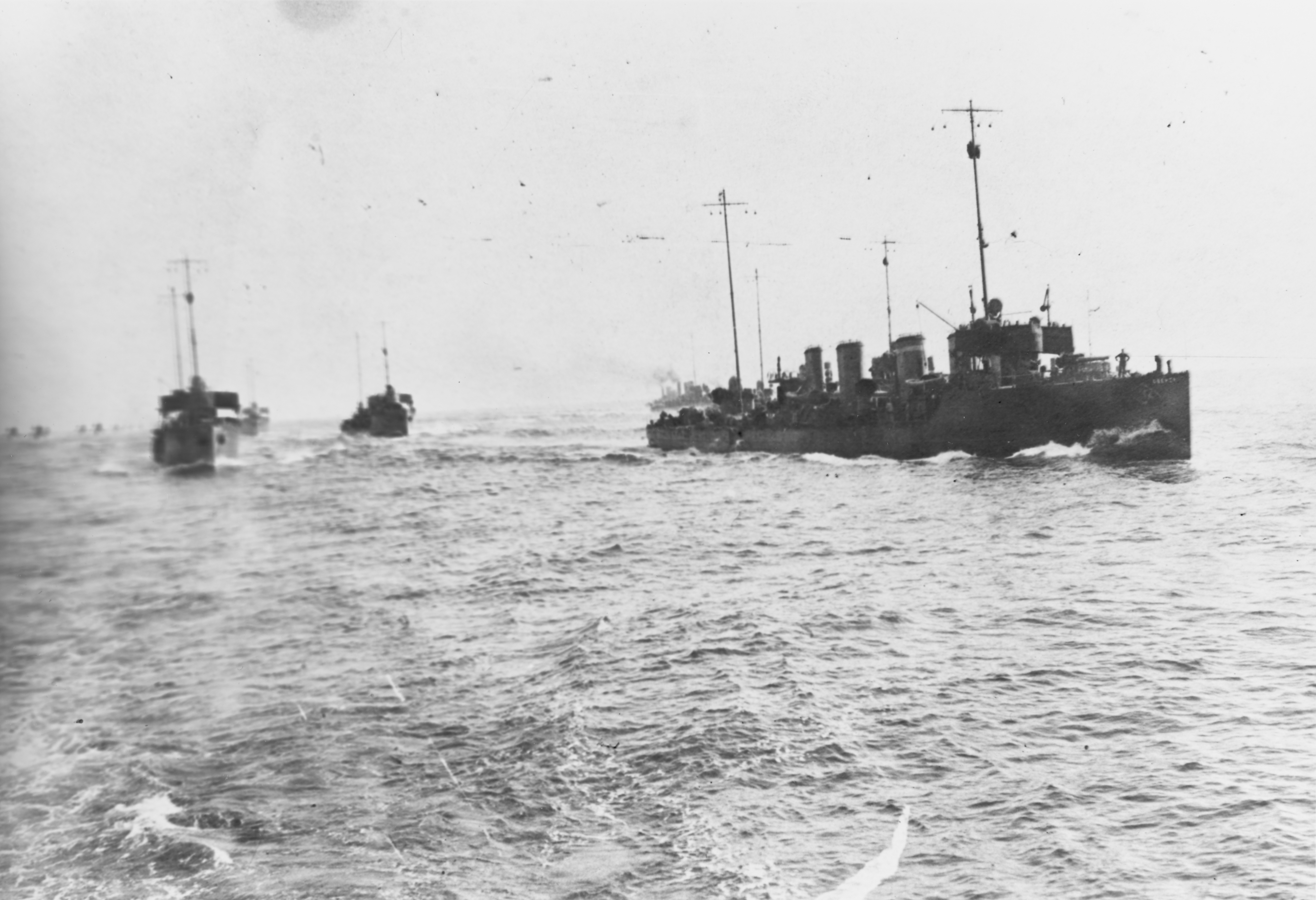 Three Tátra-class destroyers returning after the 1st Battle of Durazzo; Csepel on the right, followed by Balaton and Tátra